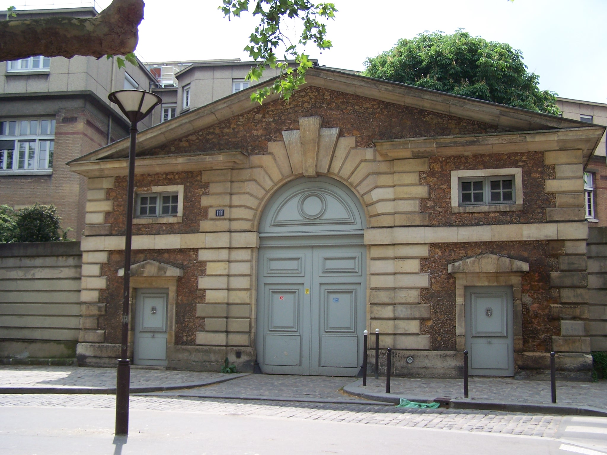 Historical entrance of the Hôpital Cochin at boulevard de Port-Royal in Paris